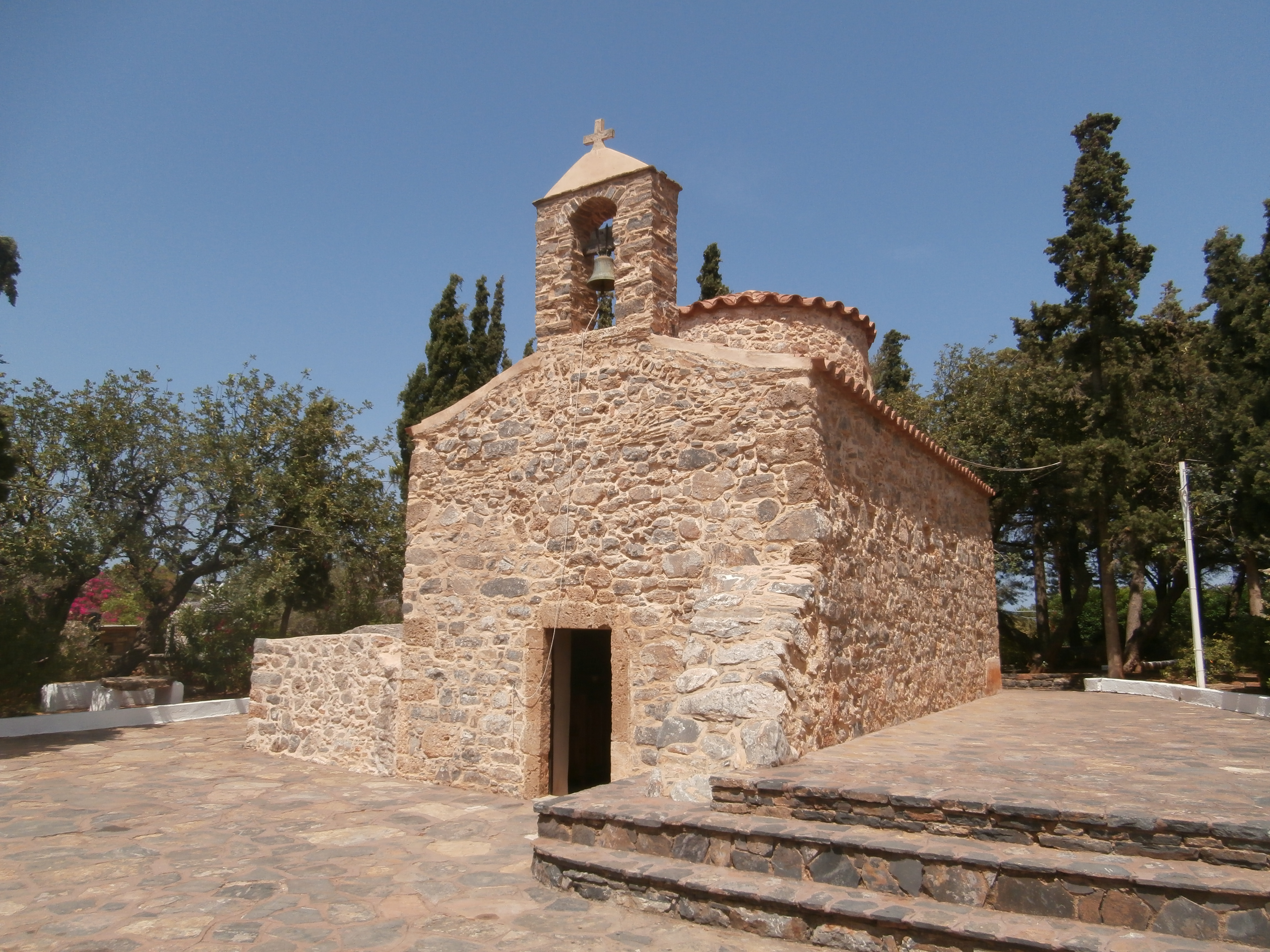 The 7th-9th century church of Agios Nikolaos